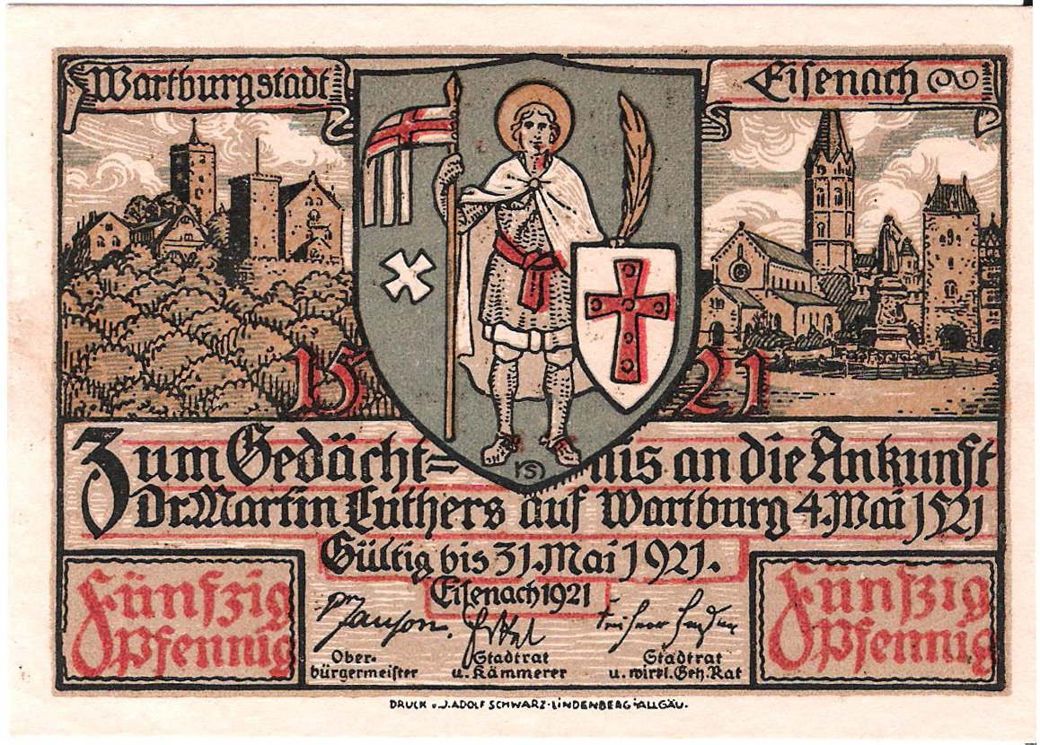 local emergency money, Eisenach 1921